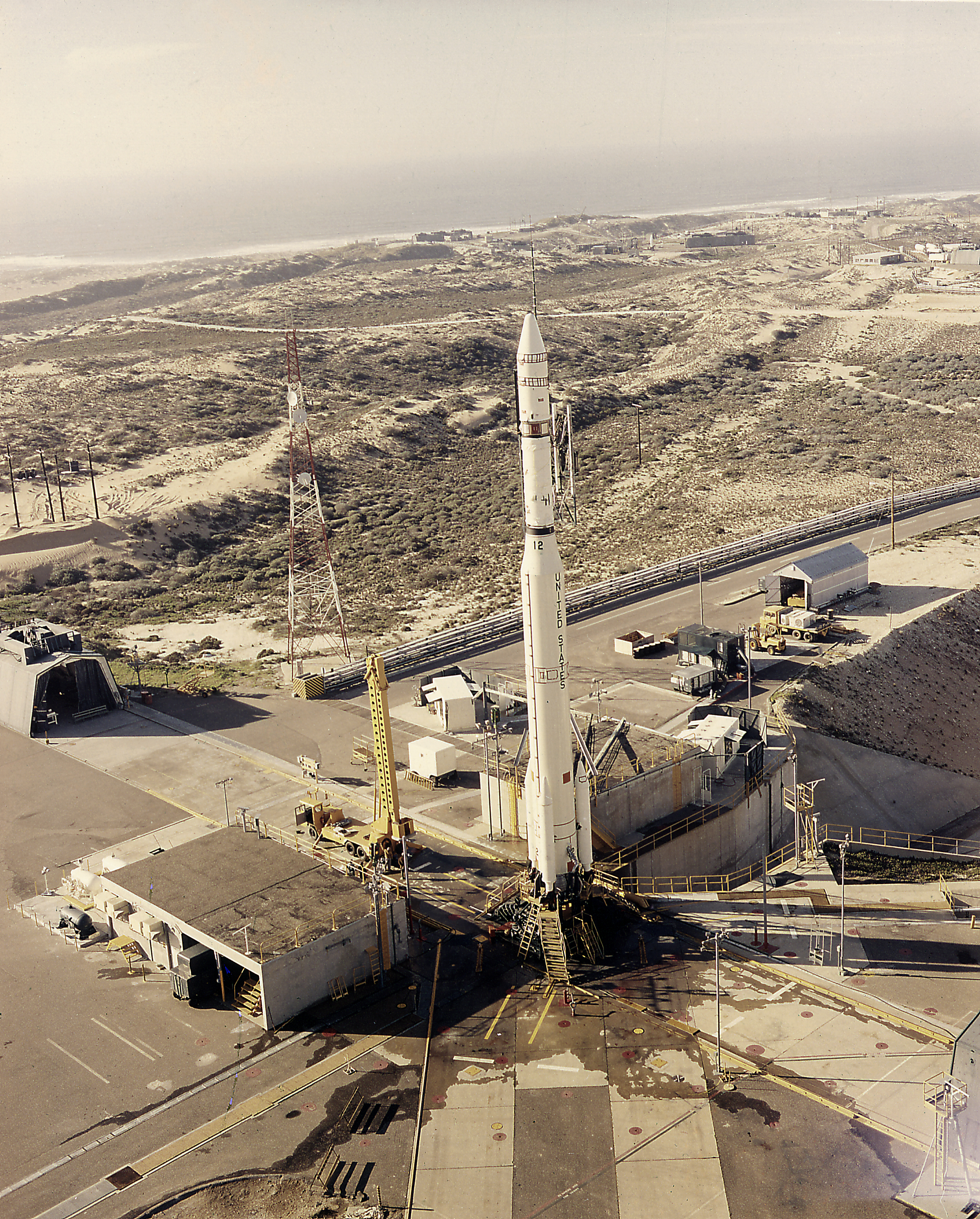 The Thorad-Agena launch vehicle with the SERT-2 (Space Electric Rocket Test-2) spacecraft on launch pad at the Western Test Range in California. The SERT-2 was launched on February 4, 1970 and tested the capability of an electric ion thruster system.